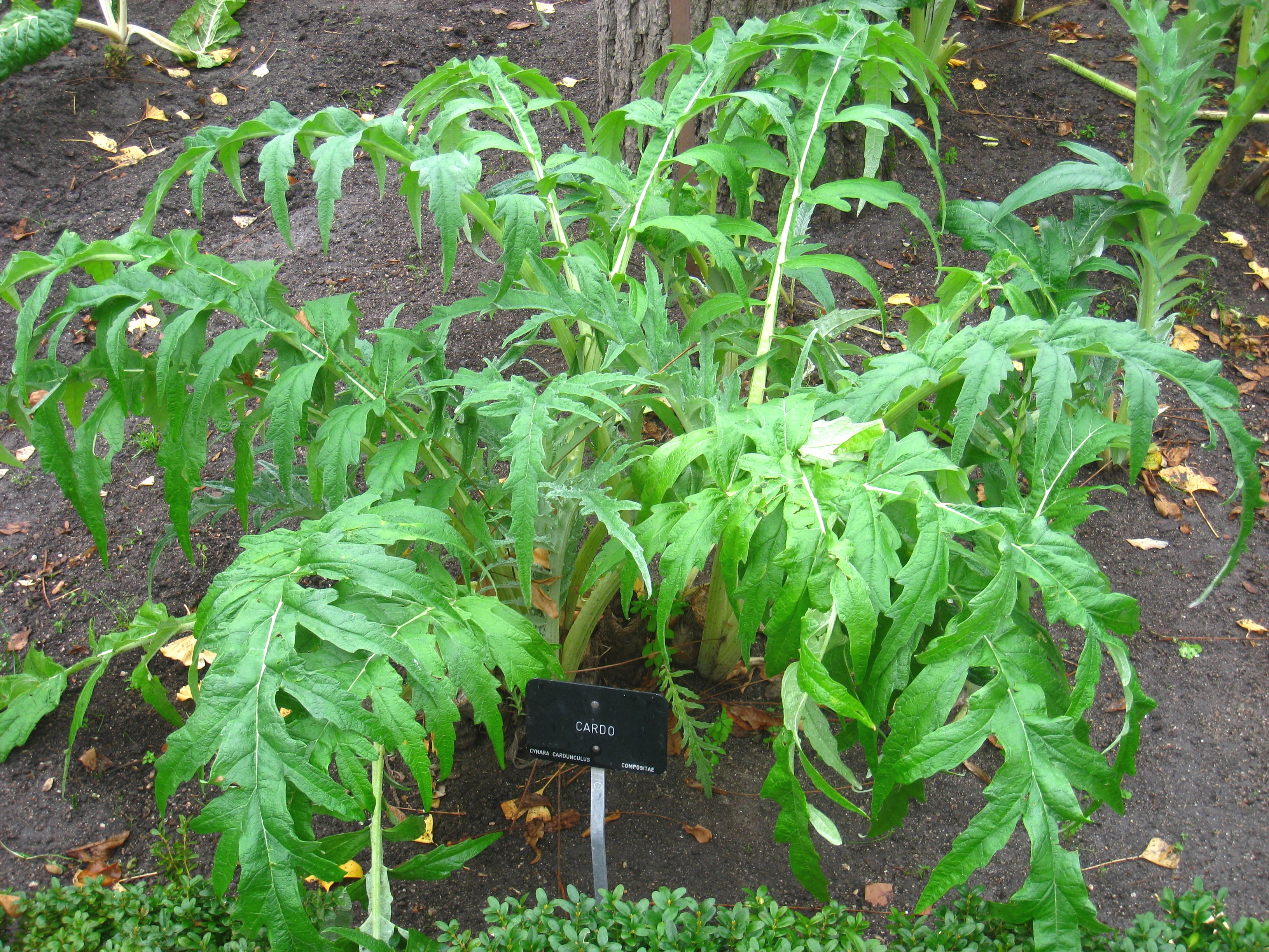 Cynara cardunculus - Royal Botanical Garden, Madrid, Spain. I took this photograph.